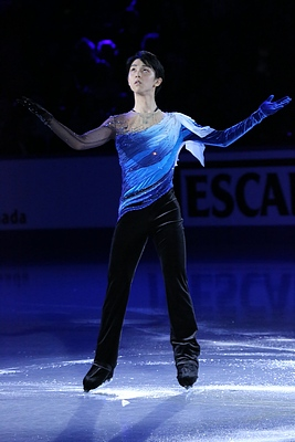 Yuzuru Hanyu during his exhibition program at the 2013 Skate Canada International.